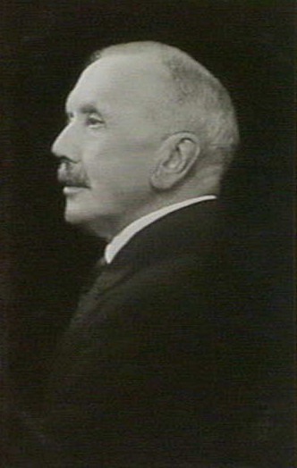 Sir Ernest Clark, GCMG, KCB, CBE (13 April 1864 – 26 August 1951)